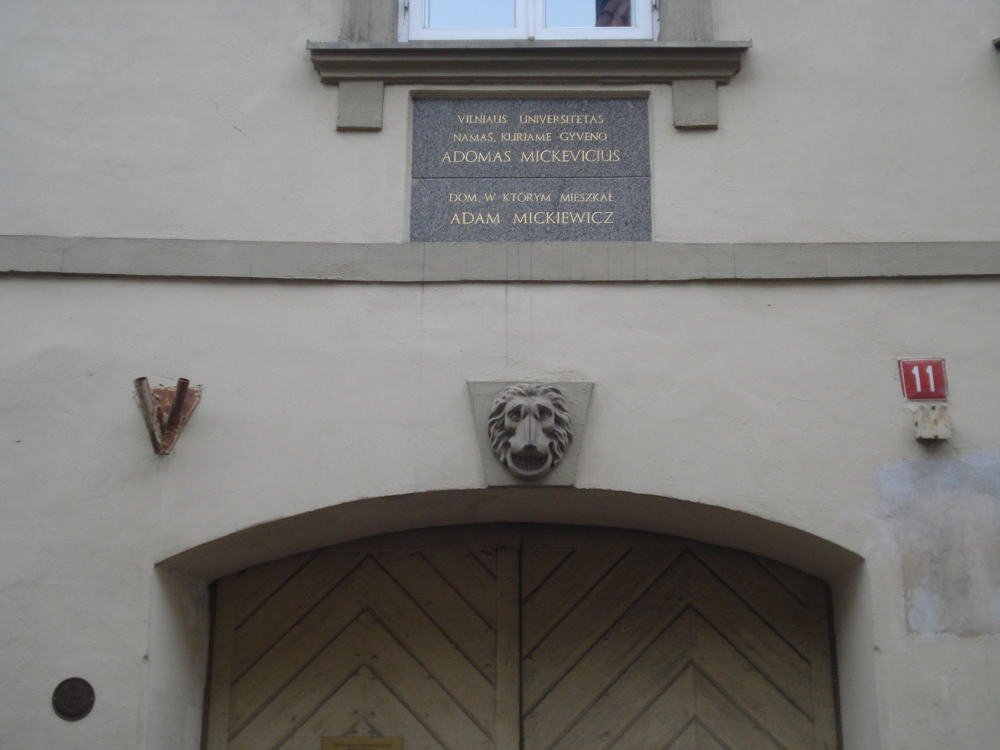 Bernardinu street 11 (Vilnius, Lithuania). Adam Mickiewicz lived in this house.